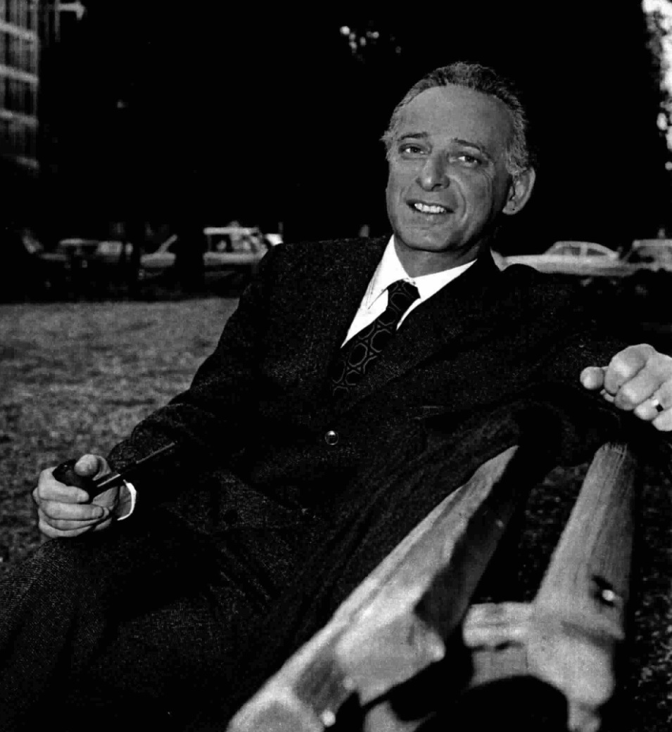 Italian writer Angelo Romanò